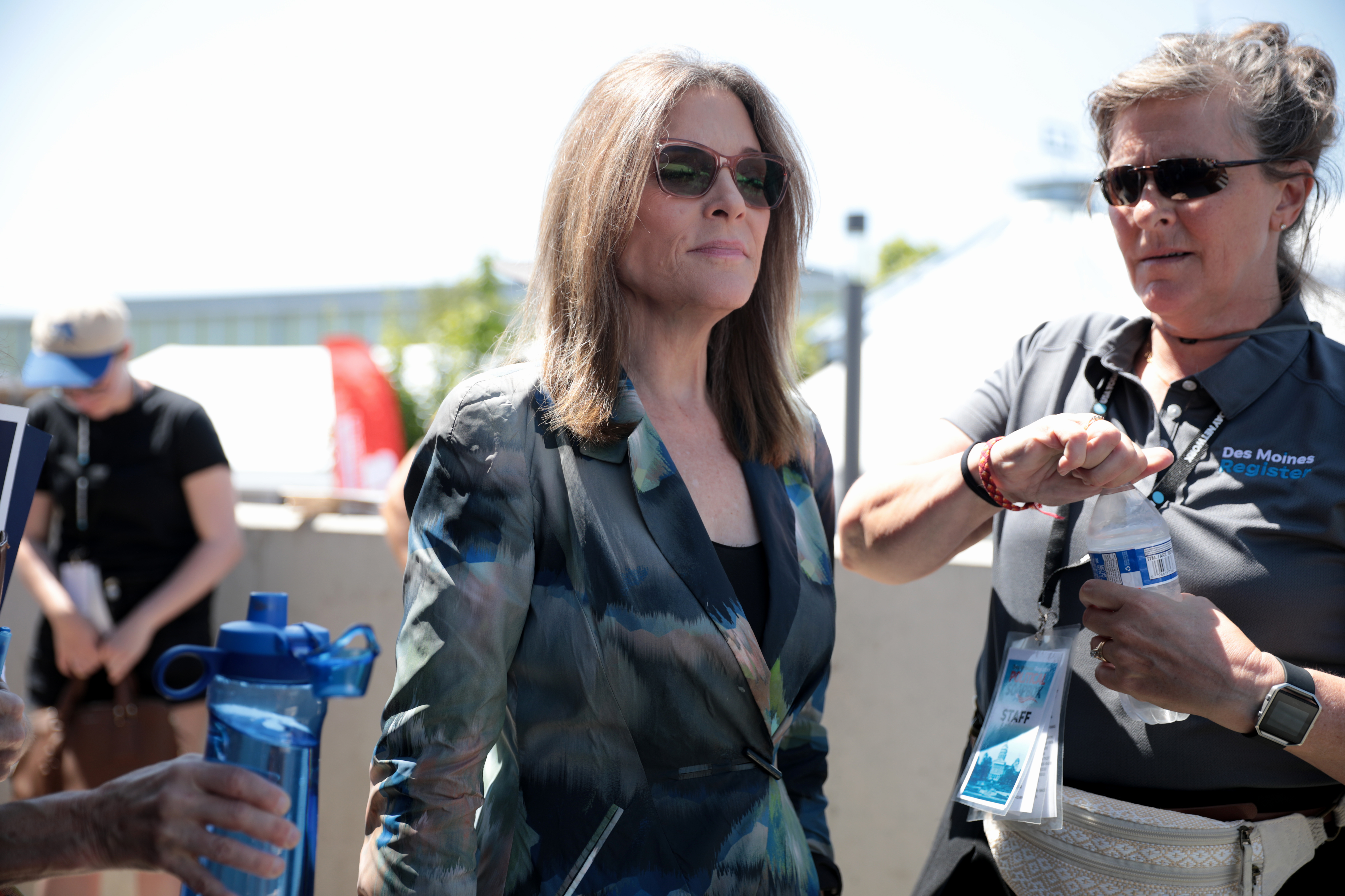 Marianne Williamson speaking with supporters at the Des Moines Register's Political Soapbox at the 2019 Iowa State Fair in Des Moines, Iowa.